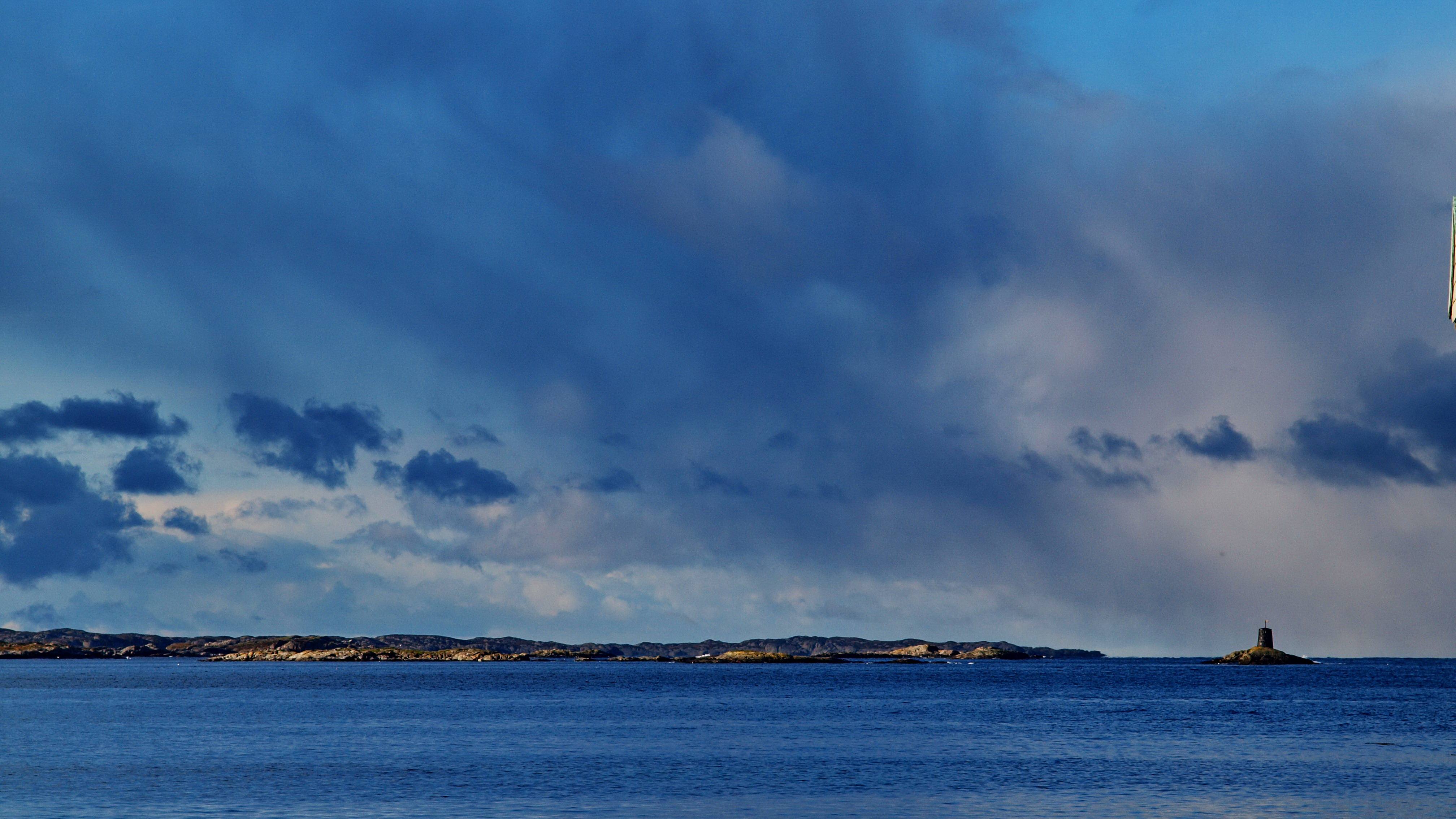 Byrkjenes, Gulen municipality, Sogn og Fjordane county, Norway.